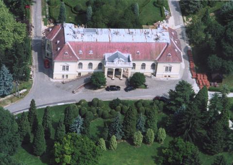 Somogyzsitfa, Hungary, aerialphotography